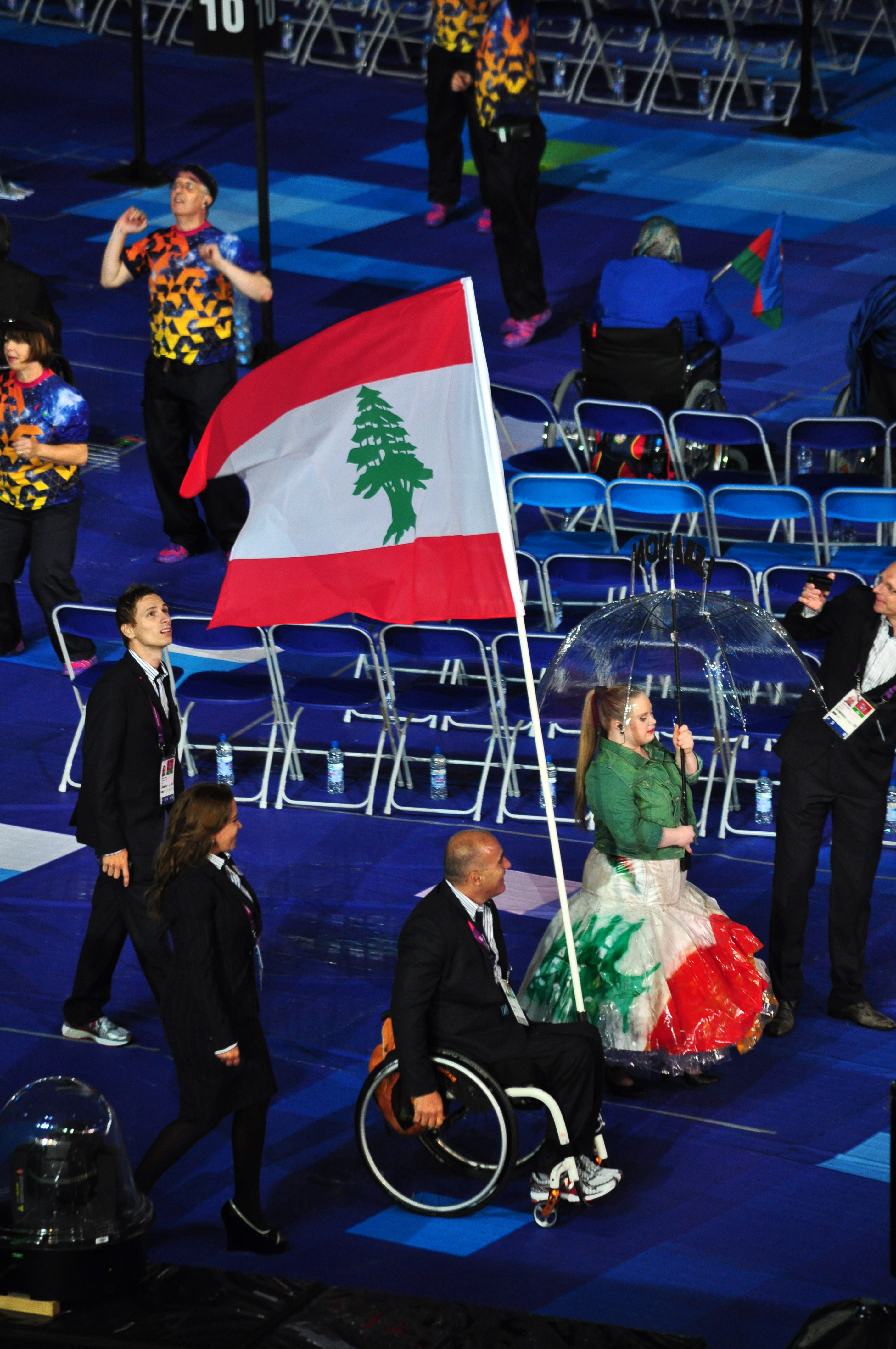 Paralympic team Lebanon